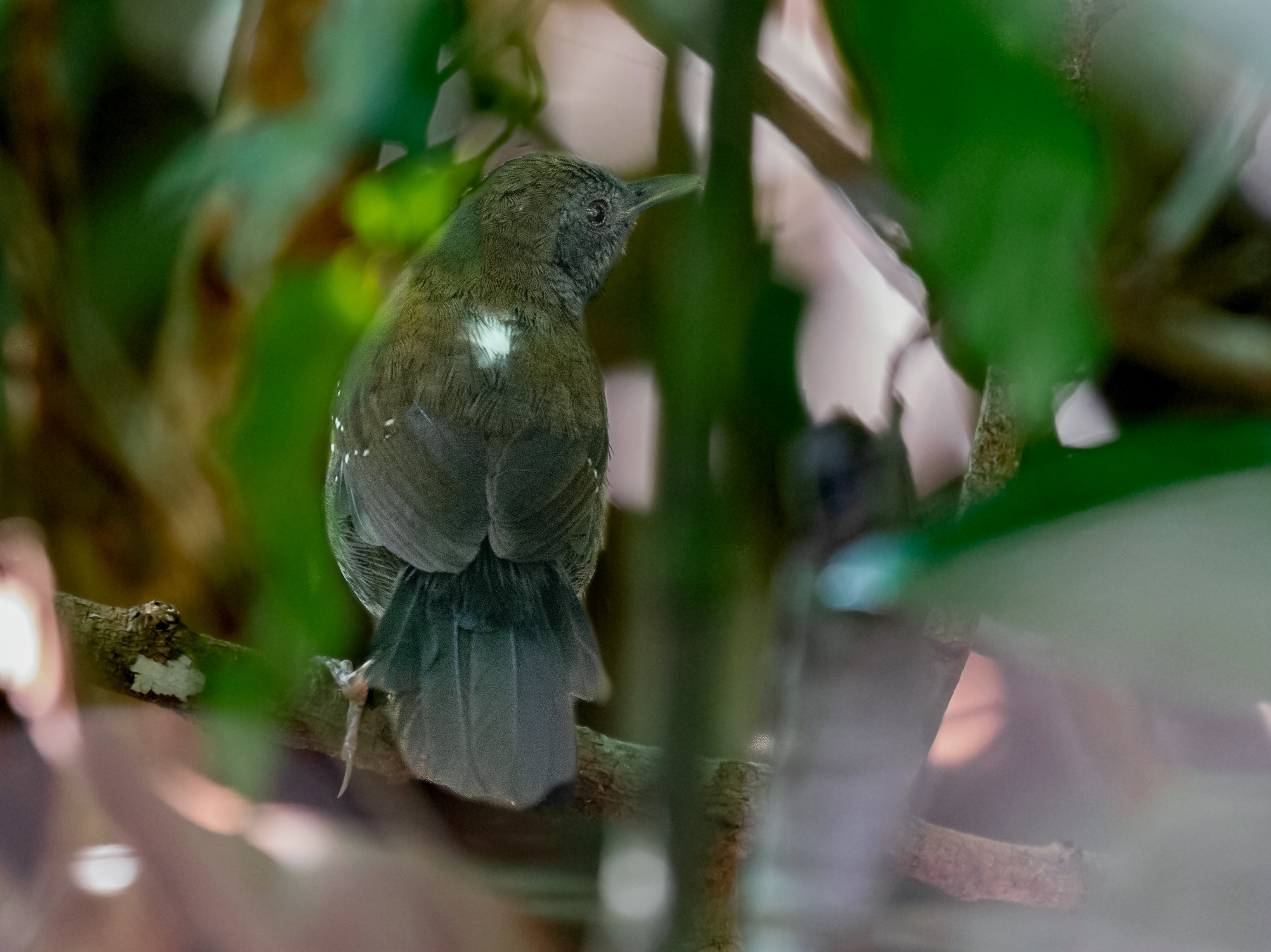 Black-throated Antbird (male); Manaus, Amazonas, Brazil